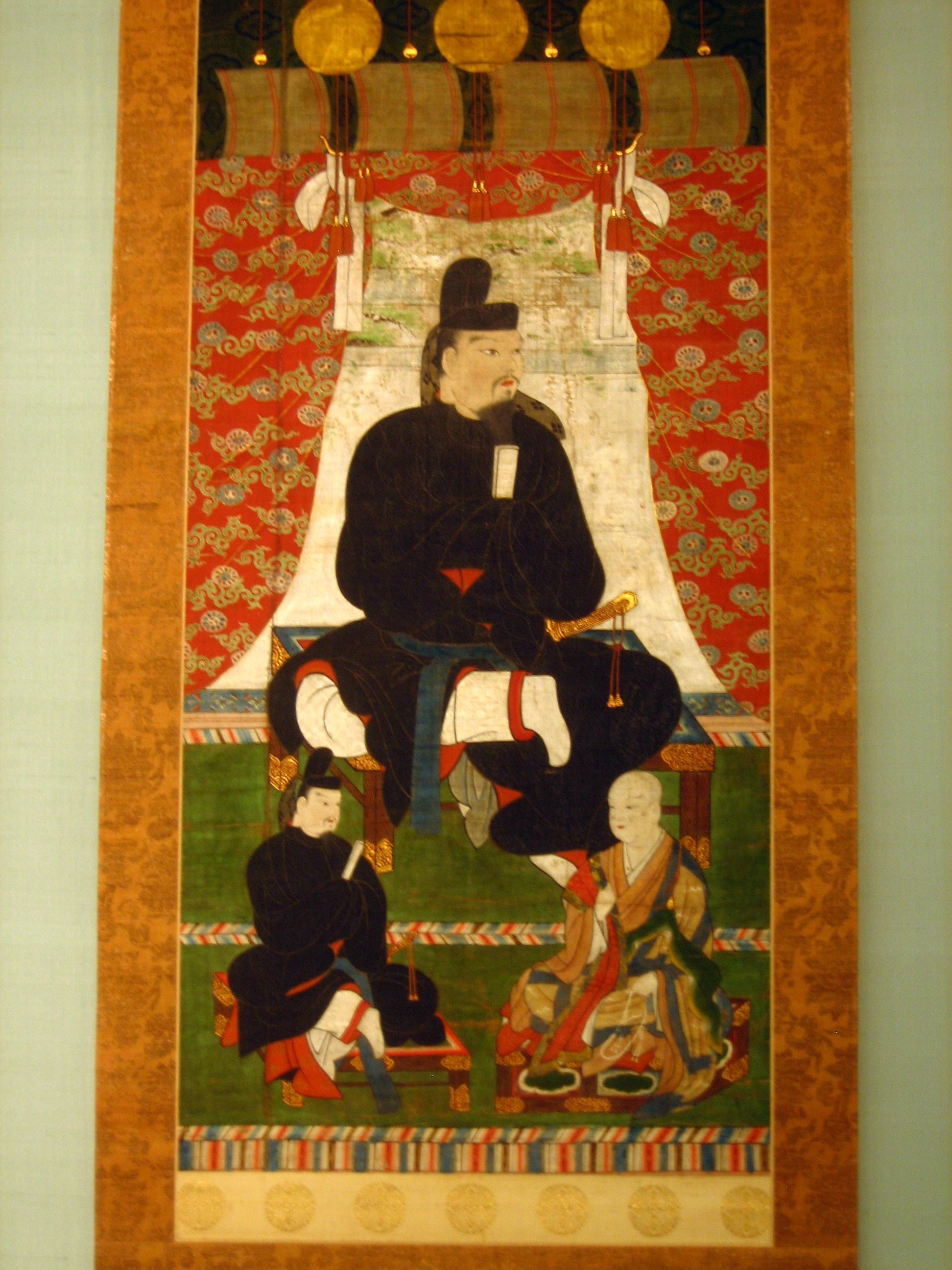 Hanging scroll. Ink and and color on silk.Japan. Muromachi period. 16th century.In this image Fujiwara Kamatari is flanked by his eldest son (Joe) and his youngest son (Fuhito) who is wearing court robes. Located at LACMA